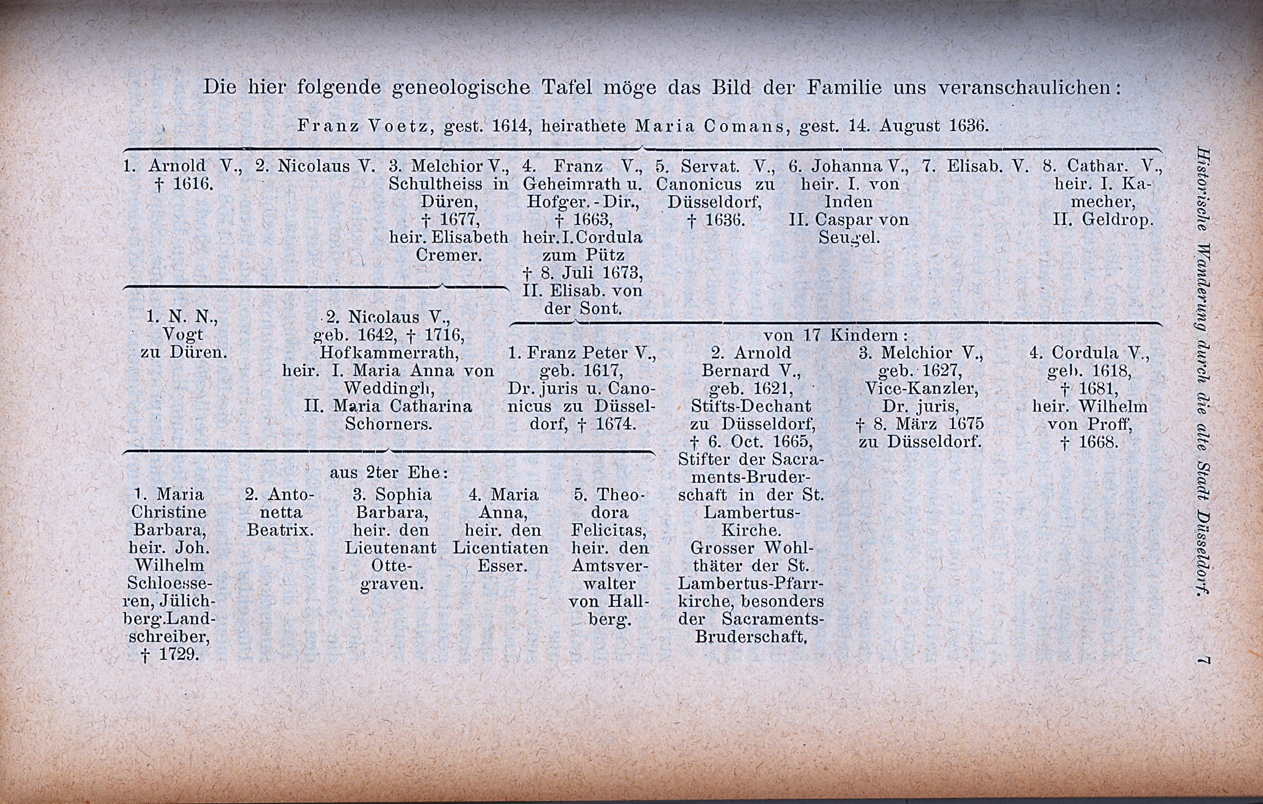 Nicolaus Voetz und seiner Frau Maria Katharina Schorner